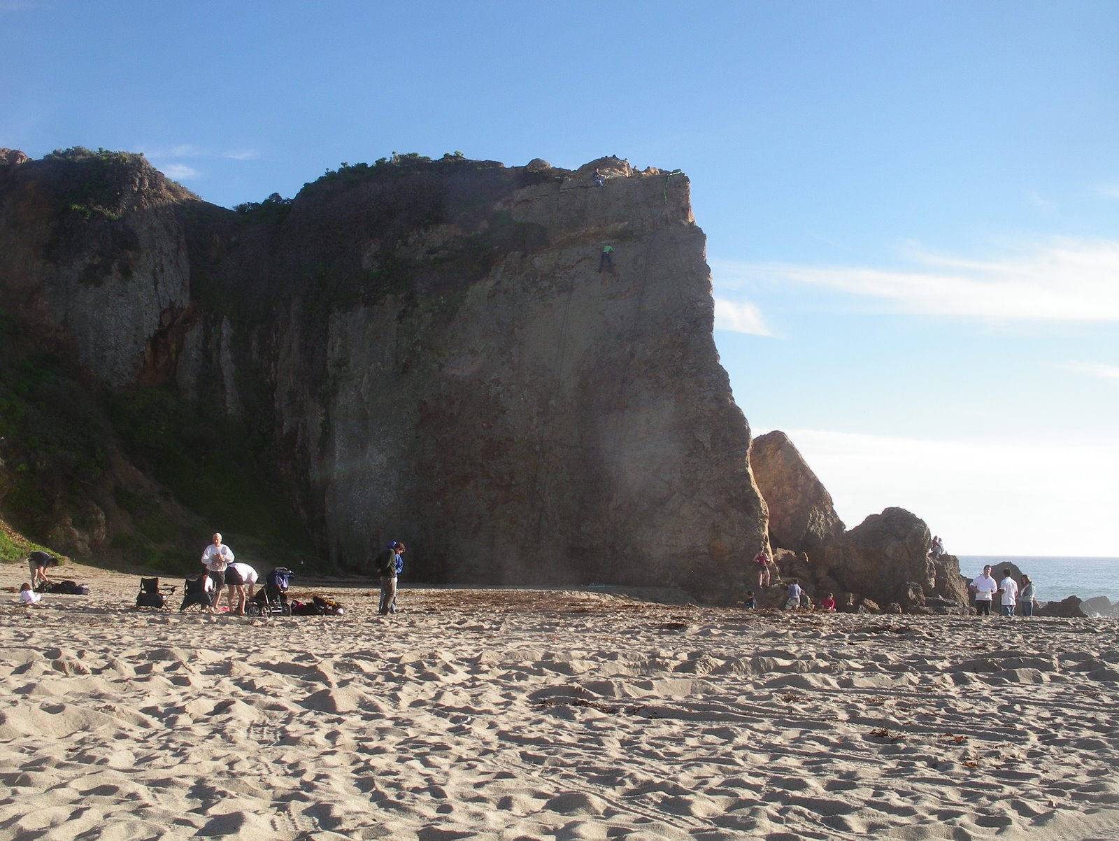 Point_Dume_Climbing